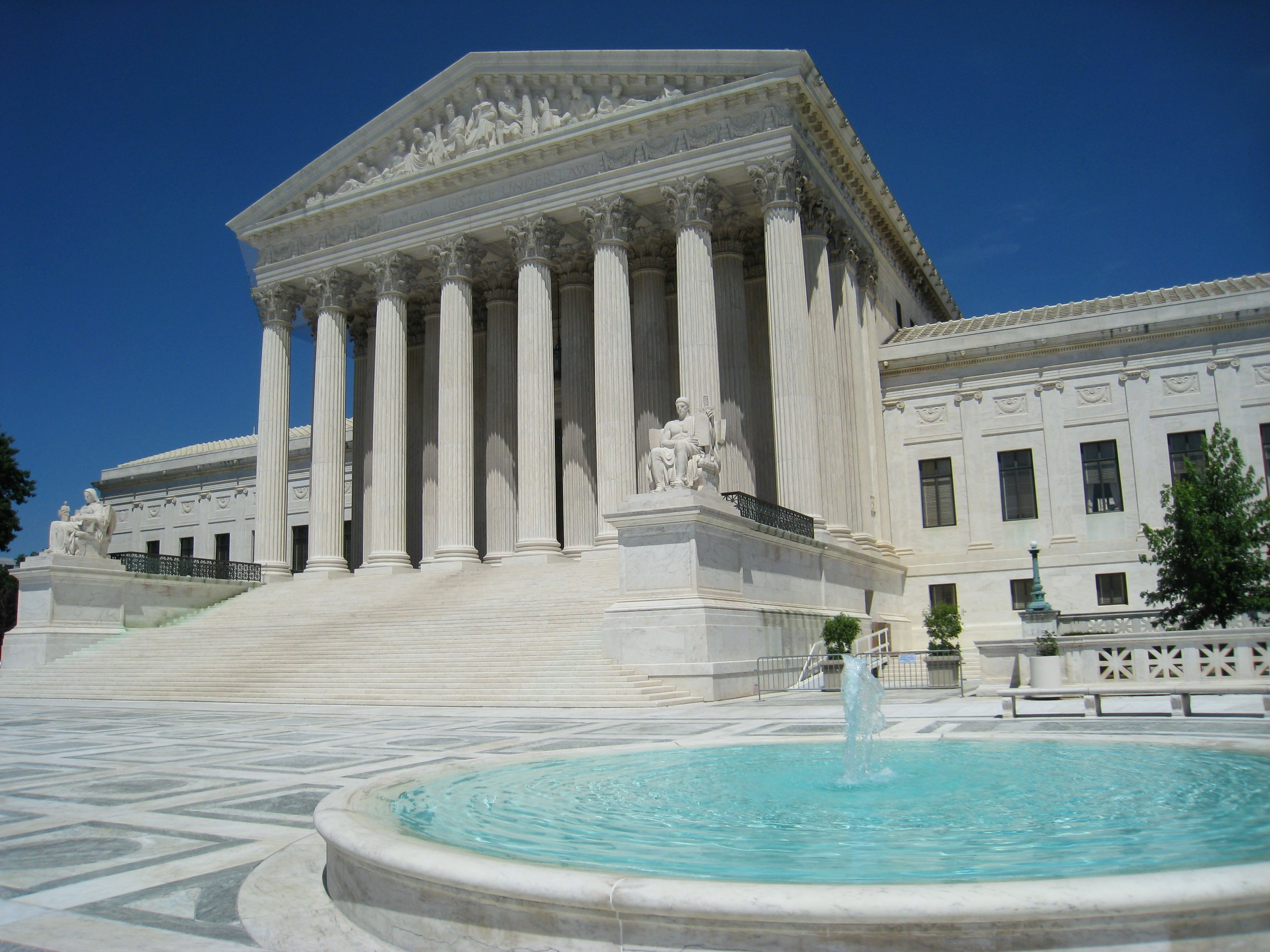 Supreme Court building, Washington, DC, USA. Front facade.